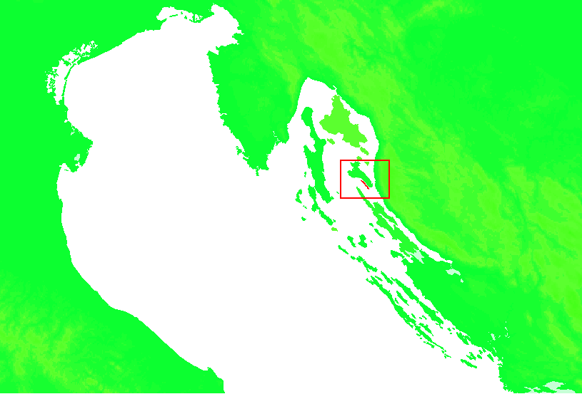 Island of Croatia Croatia - Dolin.PNG